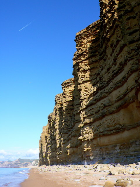 East Cliffs, West Bay, Dorset Looking NW. The two people in the middle distance are on the northern side of the E-W grid line. The cliffs are made of Bridport Sands which erodes in distinct bands because some layers are harder than others.